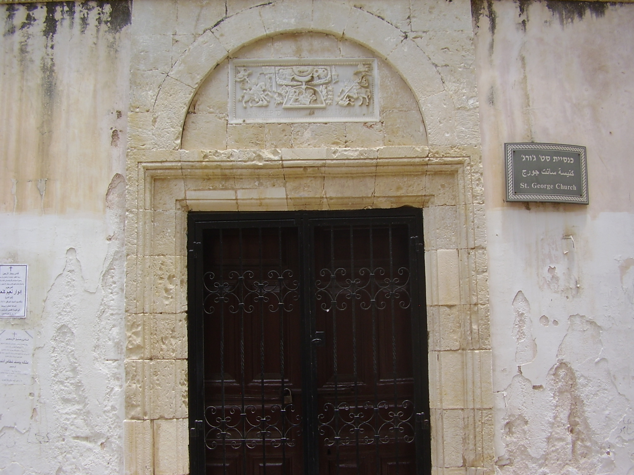 St. George church in Acre